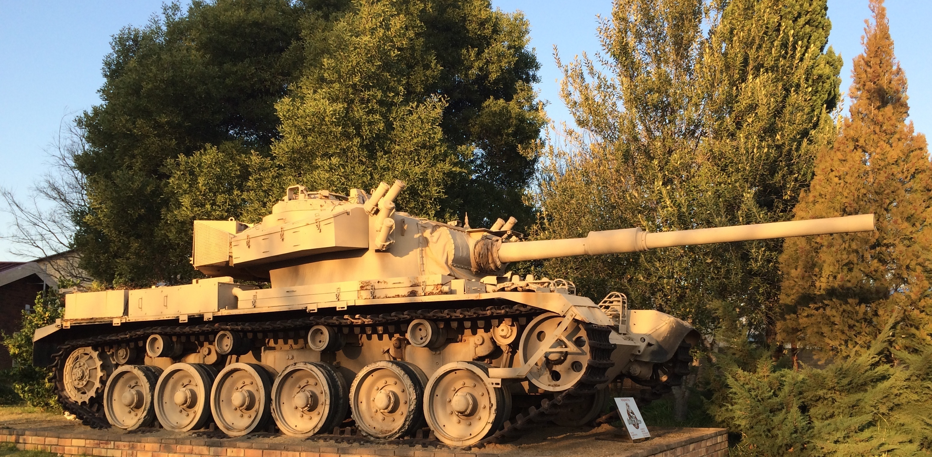 Description: Olifant Mk1A tank at the South African Armour Museum, Bloemfontein.